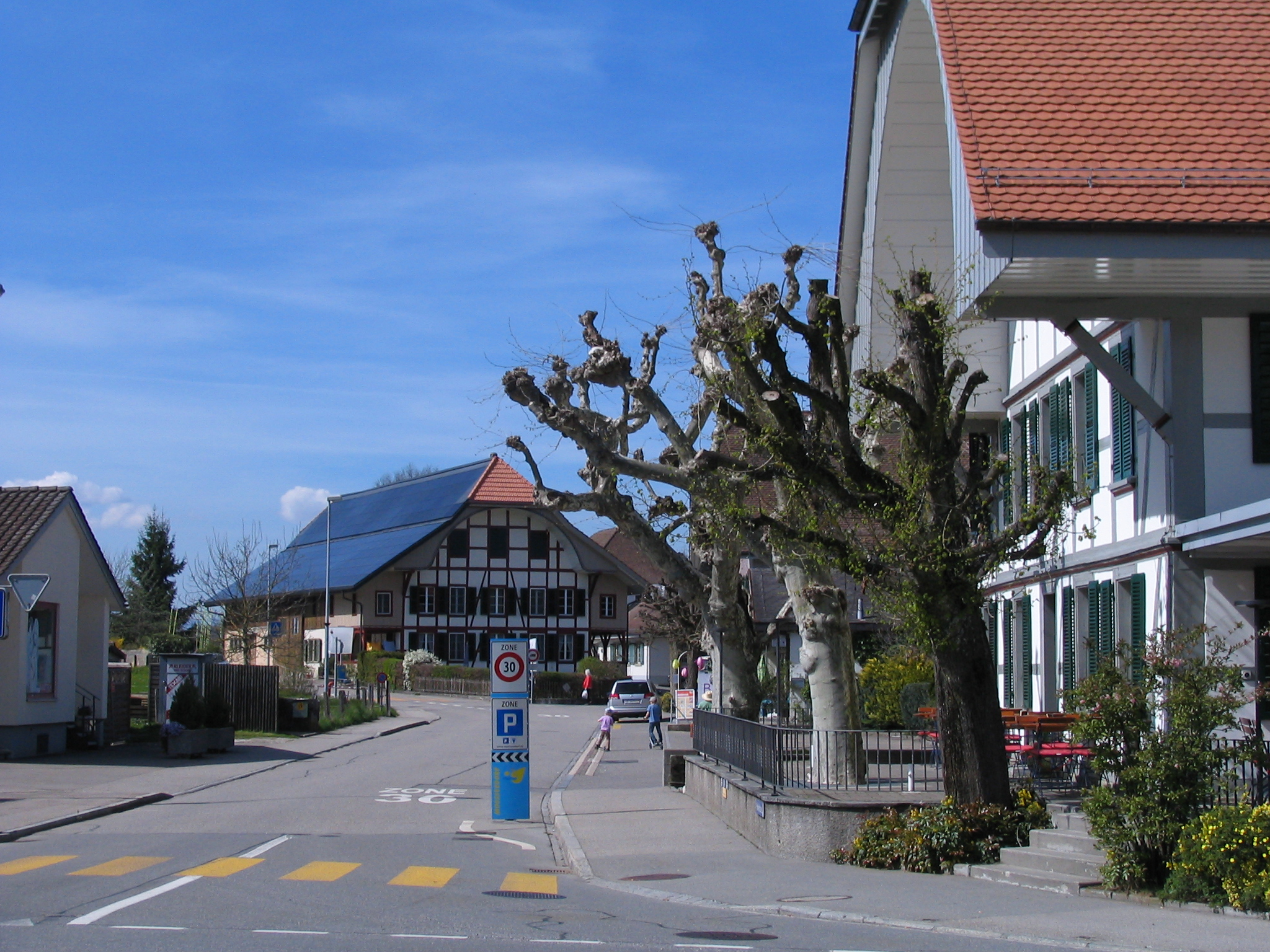 Hofwilstrasse in Moosseedorf